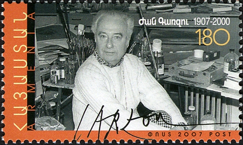 100th Anniversary of birth of Jean Garzou